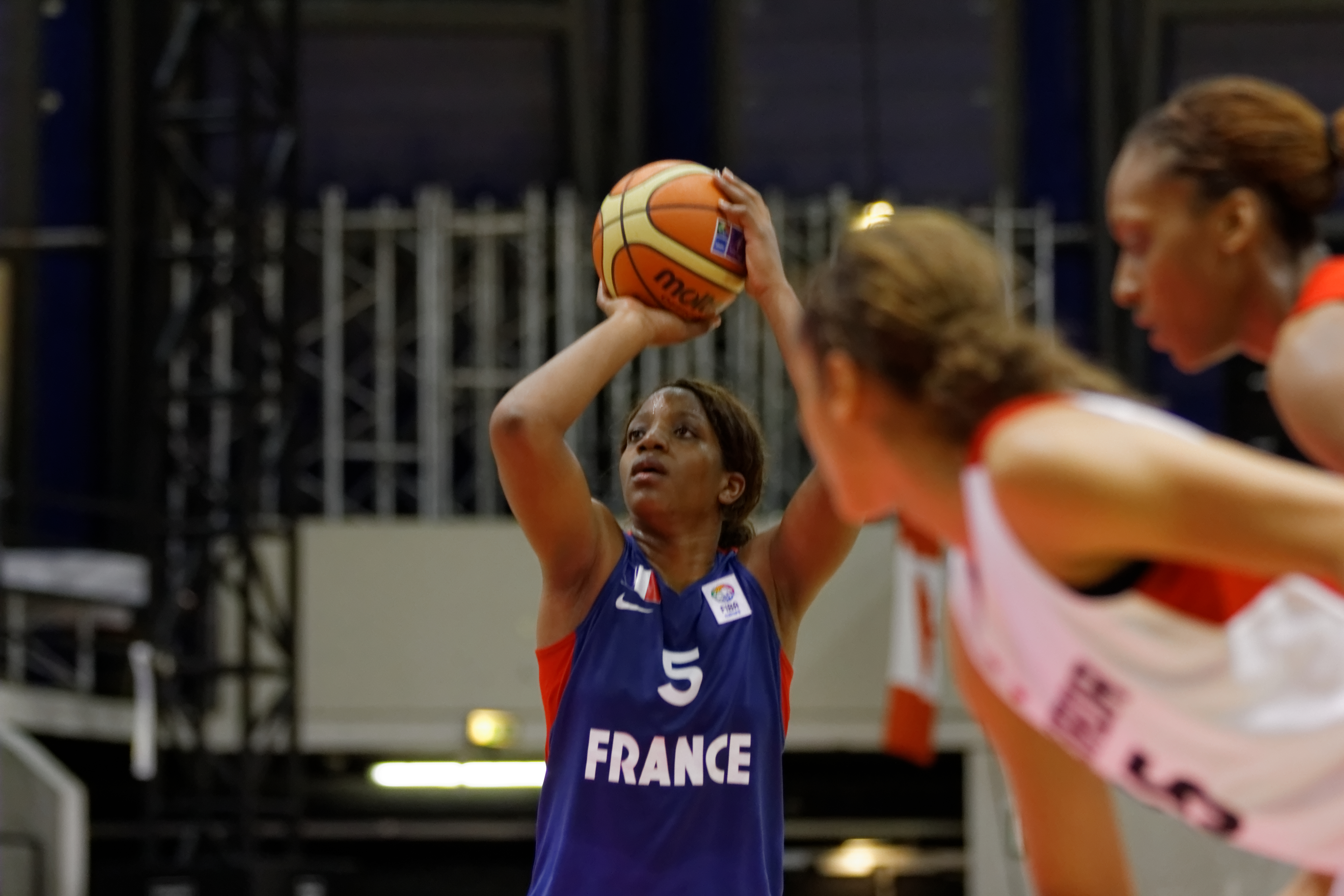 EuroEssonne, France - Canada, 7 June 2013.